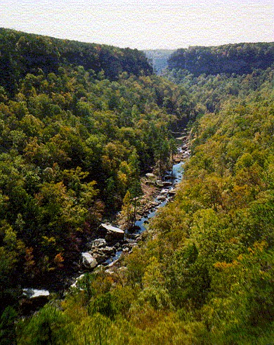 Little River Canyon, in Little River Canyon National Park Service, near Fort Payne, Alabama